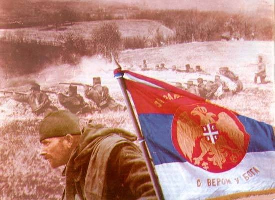 Serbian soldier Dragutin Matić with the flag of the kingdom of Serbia. The background, flag and colouring was added later. Original photography of Matić was taken by Sampson Tchernoff during World War I. The photography was widespread in the world, and often had the subtitle "Oko Sokolovo" (Falcon's Eye).